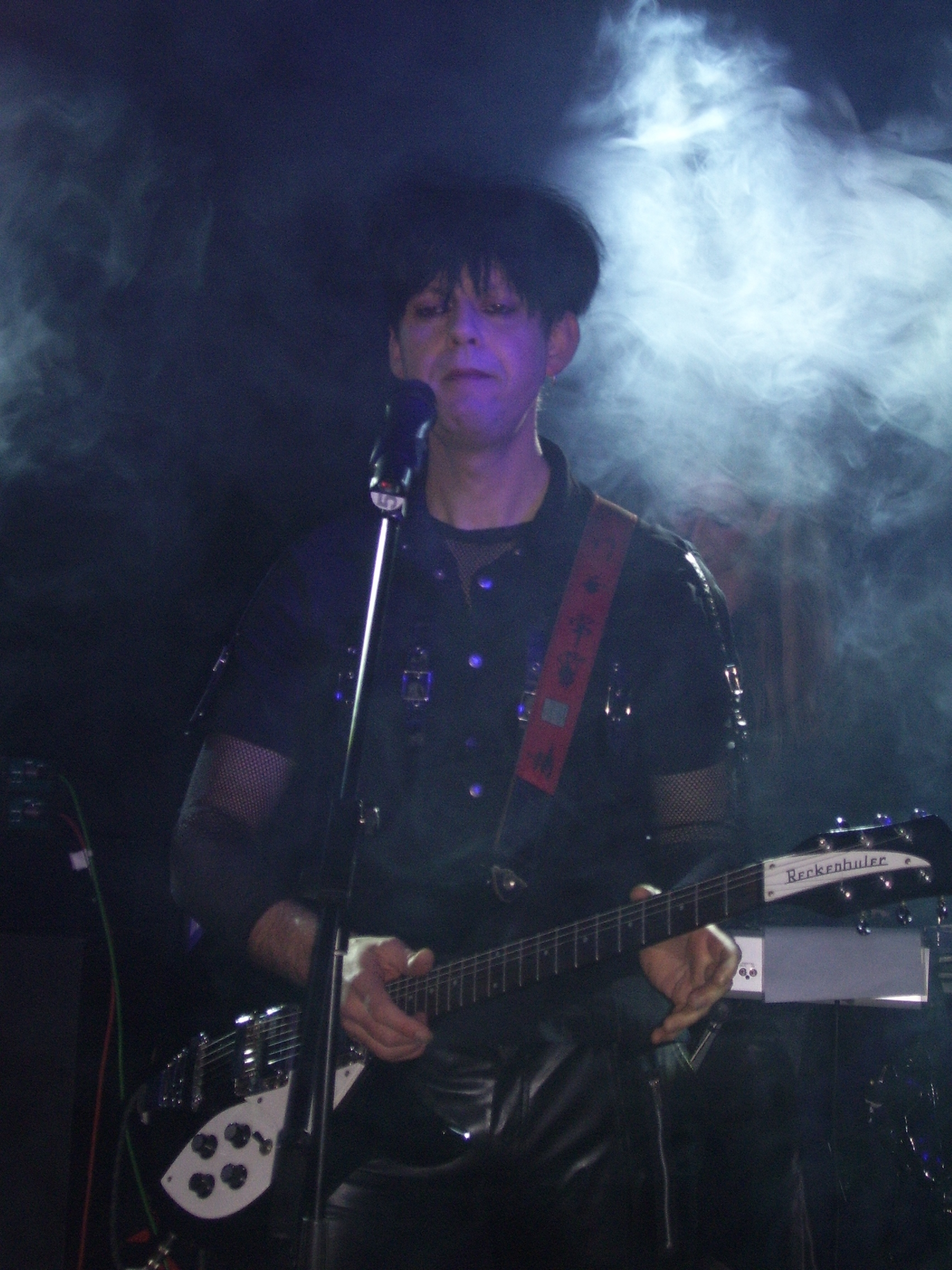 Ronny Moorings of Clan of Xymox live in Sofia.